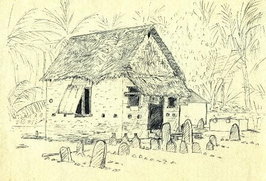 Dadimagi miskit. Mosque in Fua Mulaku, Maldives. Ink on paper.